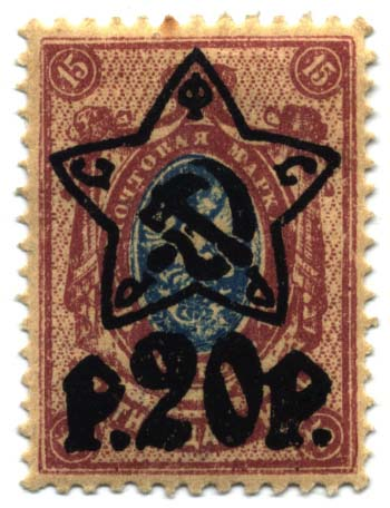 RSFSR stamp, 1922, 20 r.